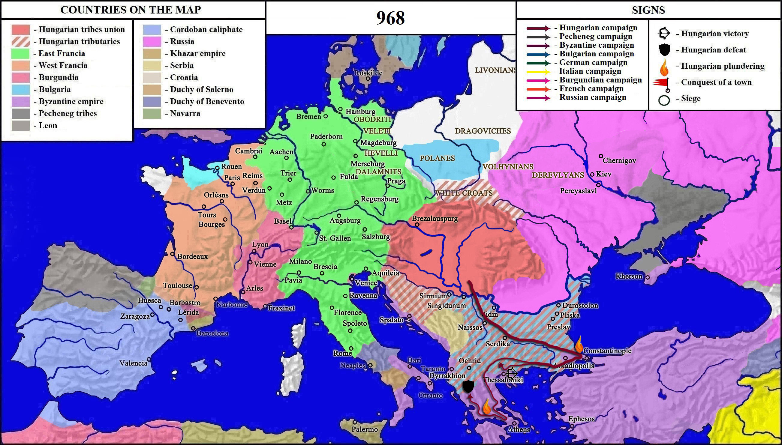 Europe in 968. The Hungarian campaign in the Balcans from 968